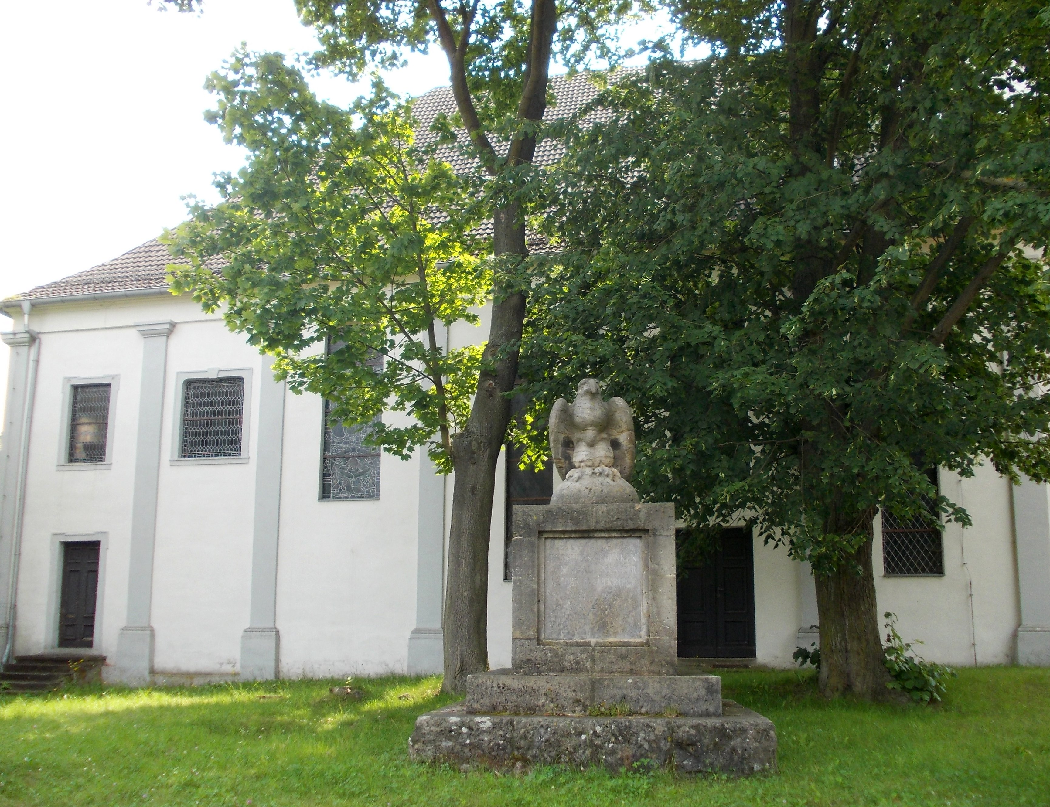 World War memorial in front of St. Leonard's Church in Bad Köstritz (Greiz district, Thuringia)